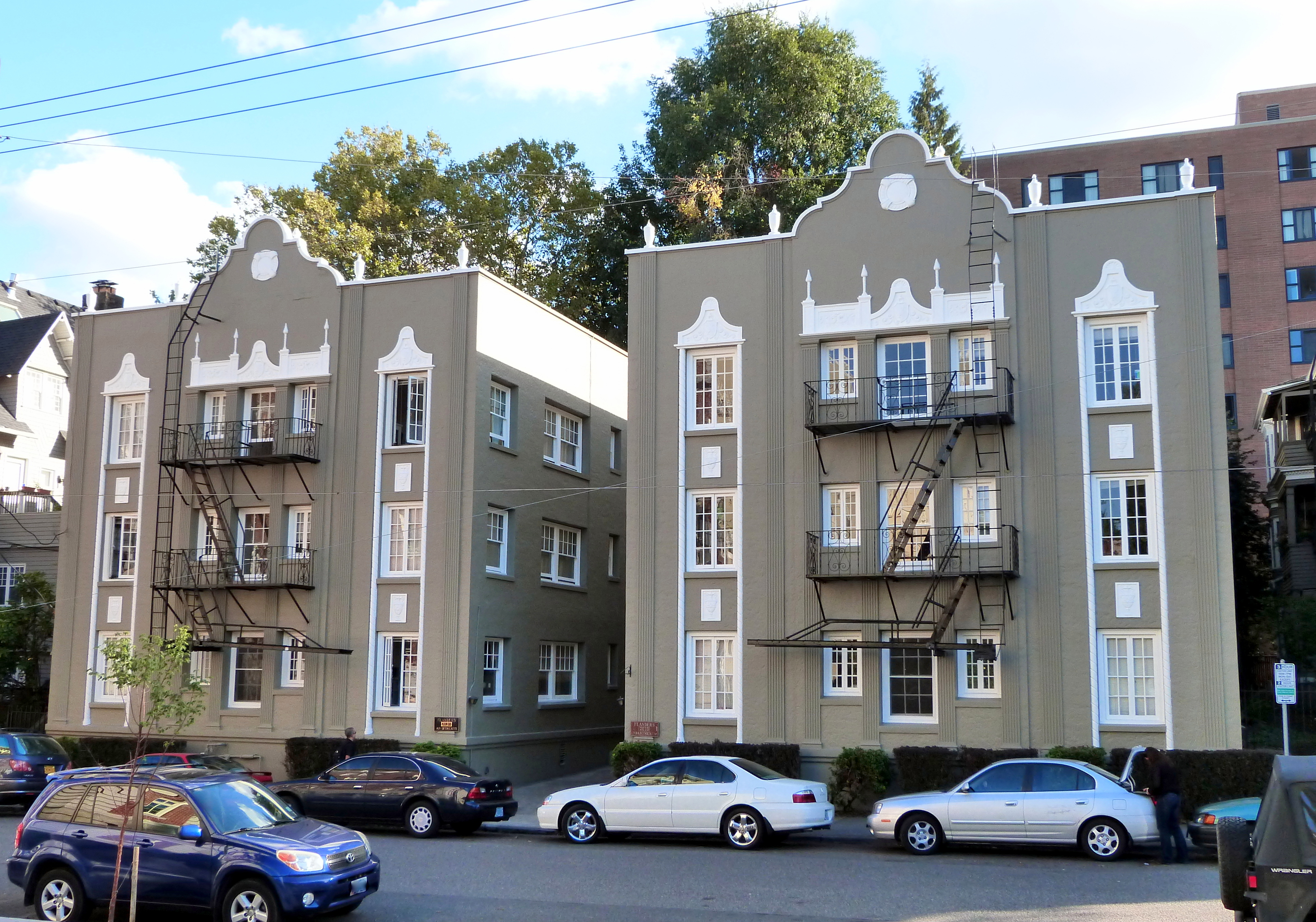 The historic Eugene Apartments (built 1930), located at 2030 Northwest Flanders Street in Portland, Oregon, United States, is listed on the US National Register of Historic Places. It is additionally listed as a contributing resource in the National Register-listed Alphabet Historic District.